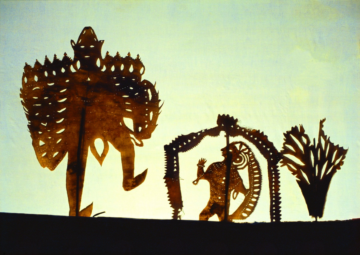 Rabana Chhaya is an ancient form of shadow puppetry from Odisha, India. ଓଡ଼ିଆ: ରାବଣଛାୟା ଓଡ଼ିଶାର ଏକ ପ୍ରାଚୀନ ଛାୟା କଣ୍ଢେଇ ନାଟ ।